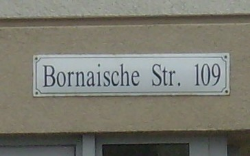 House number, Leipzig, Germany